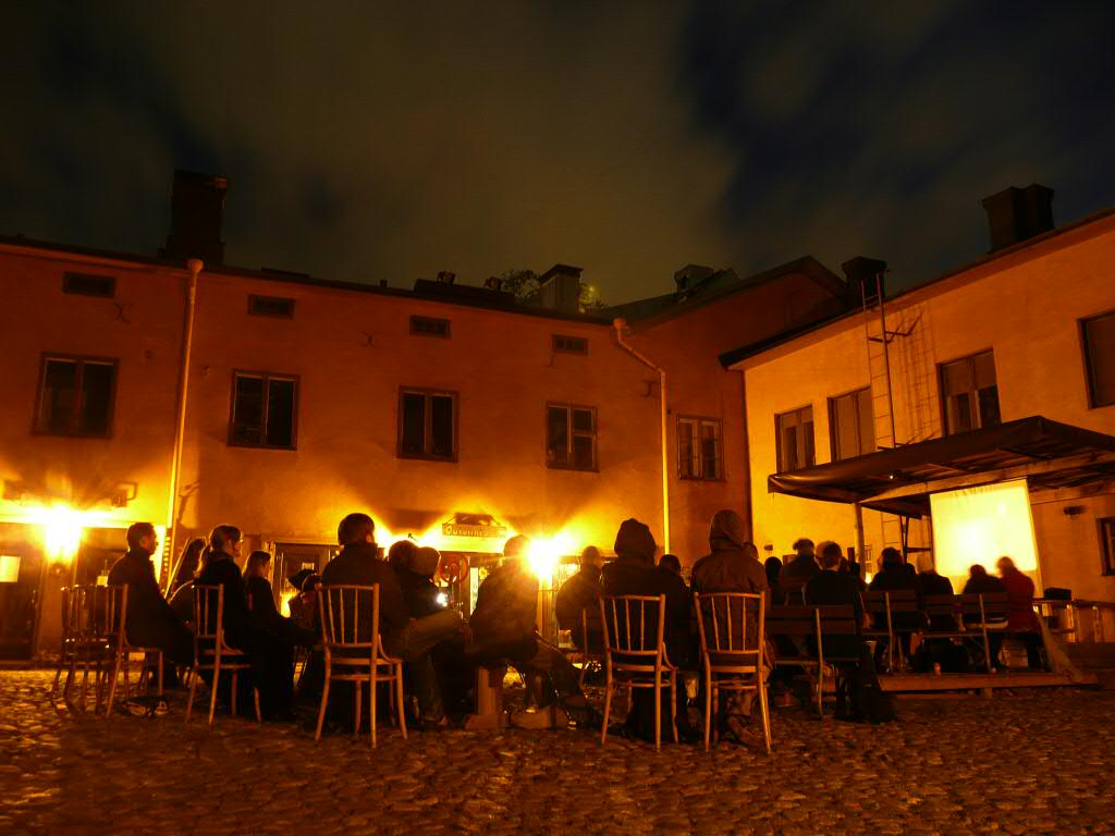 This event was organized by Turku Book Café and Turku Film Club. The film is shown on a 16mm projector which can be seen in the middle of the audience.